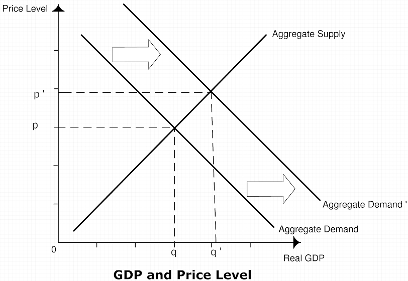 Effects of aggregate demand shifting out on GDP.